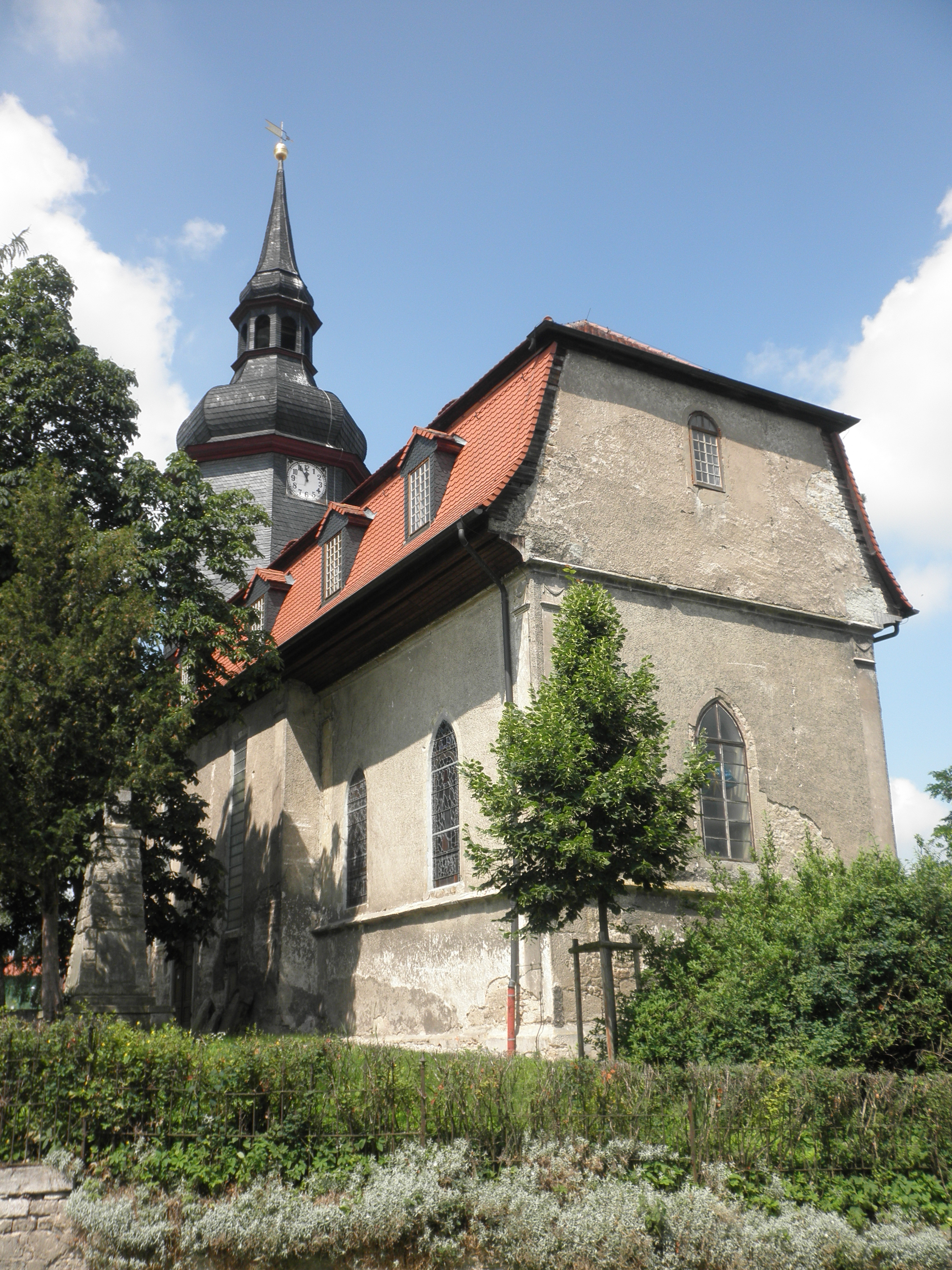 Church in Eckolstädt (Saaleplatte) in Thuringia